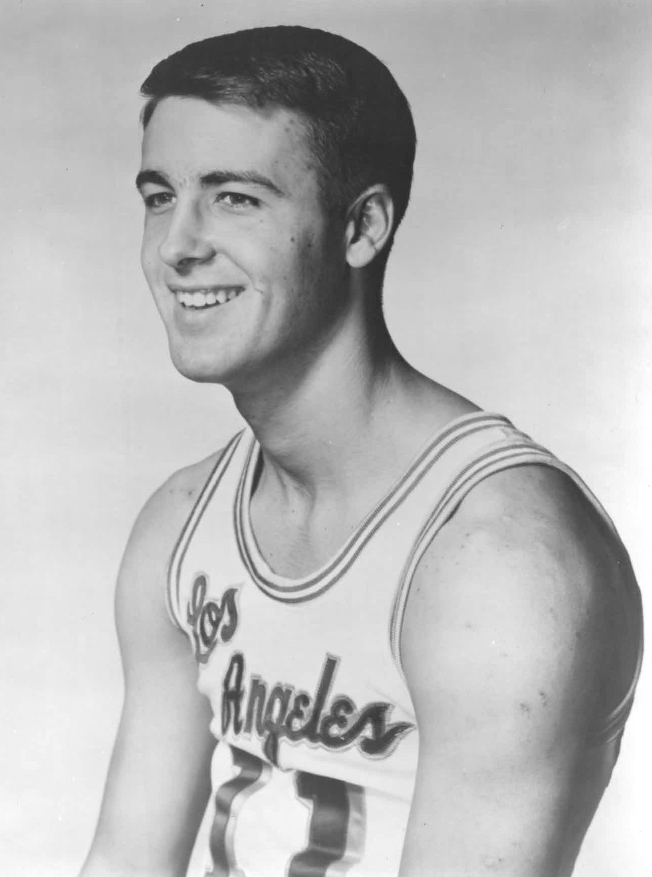 Professional basketball player Gail Goodrich